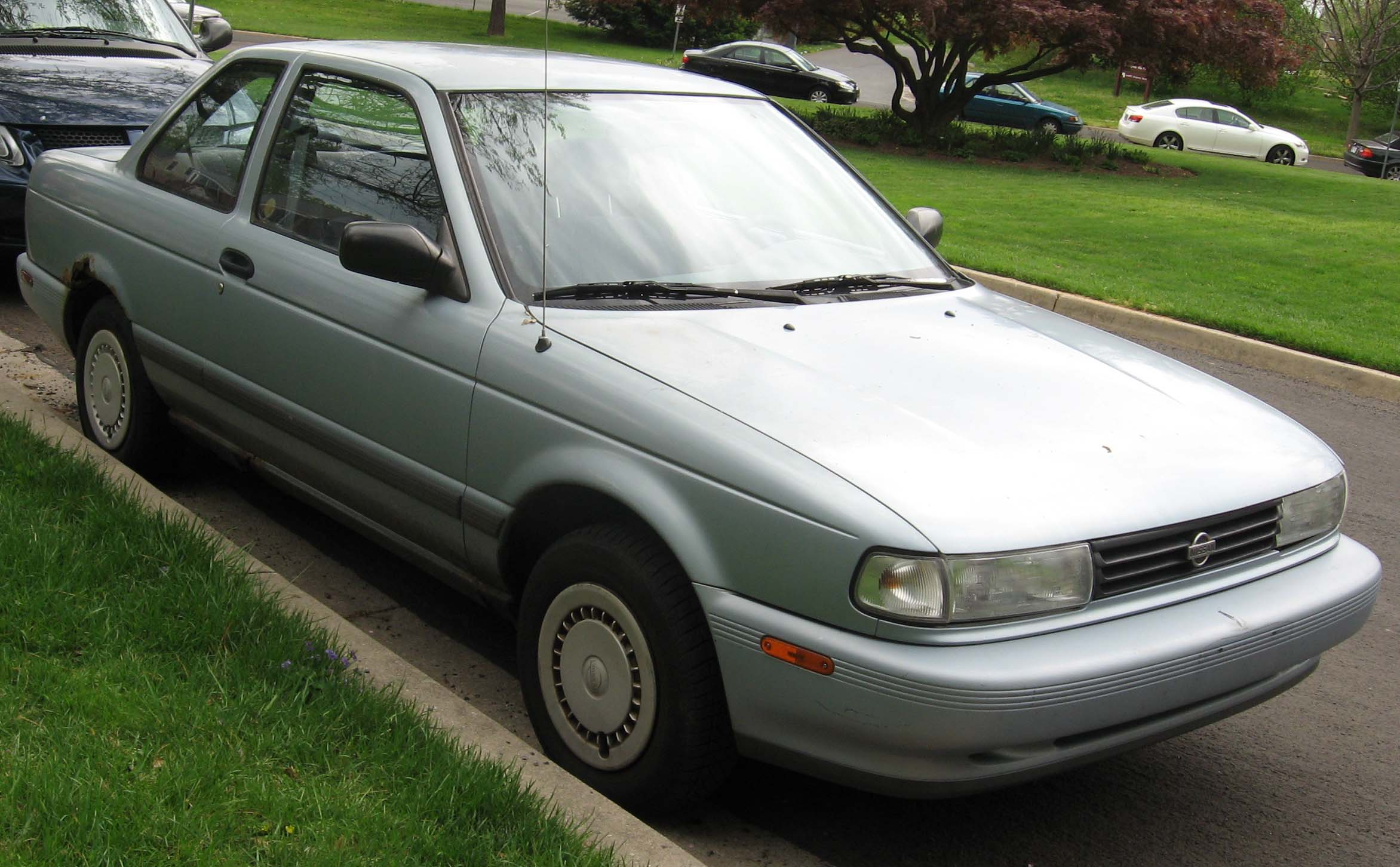 1991-1994 Nissan Sentra photographed in USA.